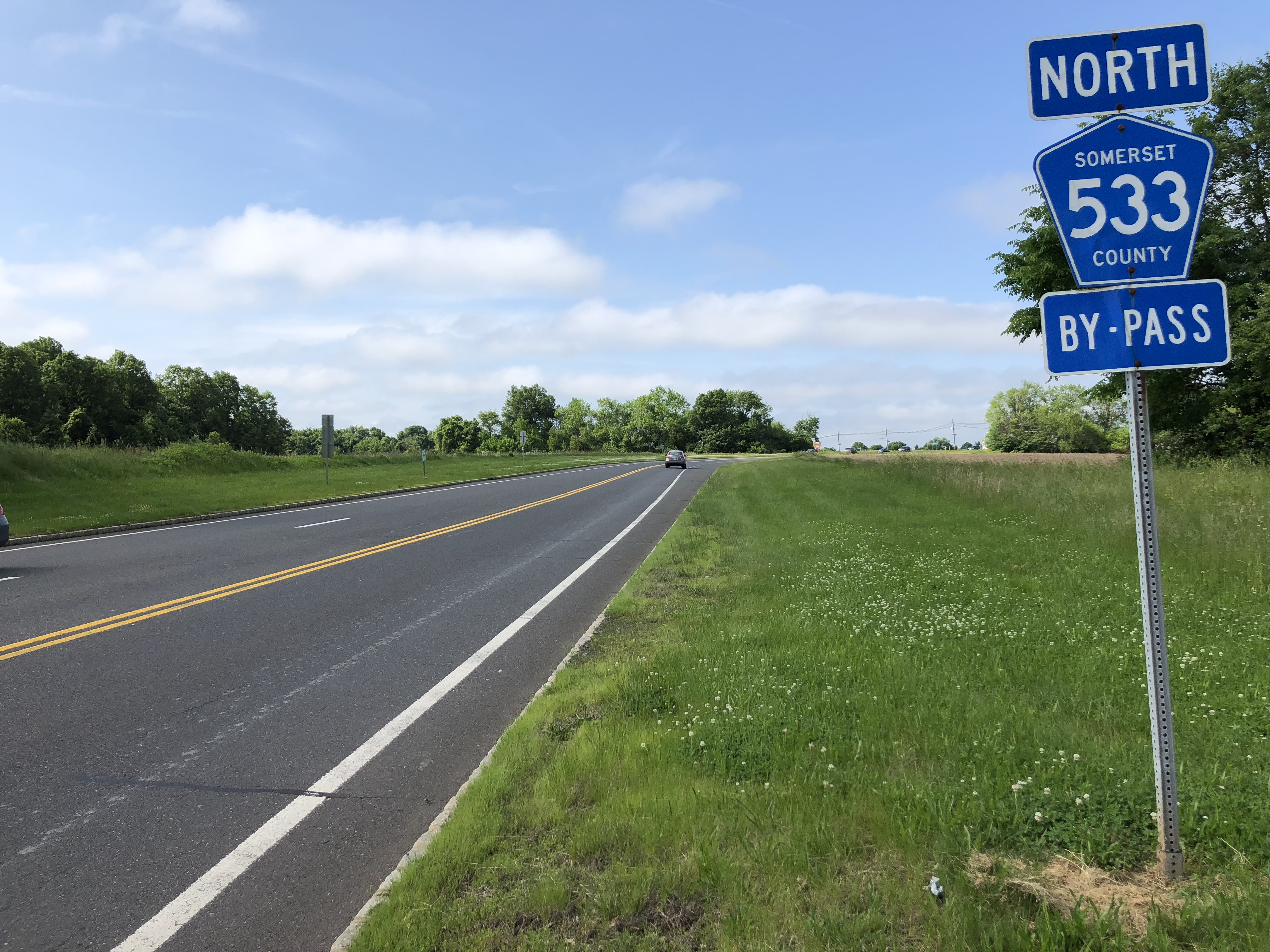 View north along Somerset County Route 533 Spur/Bypass (Somerset Courthouse Road) at Somerset County Route 514 (Amwell Road) in Millstone, Somerset County, New Jersey